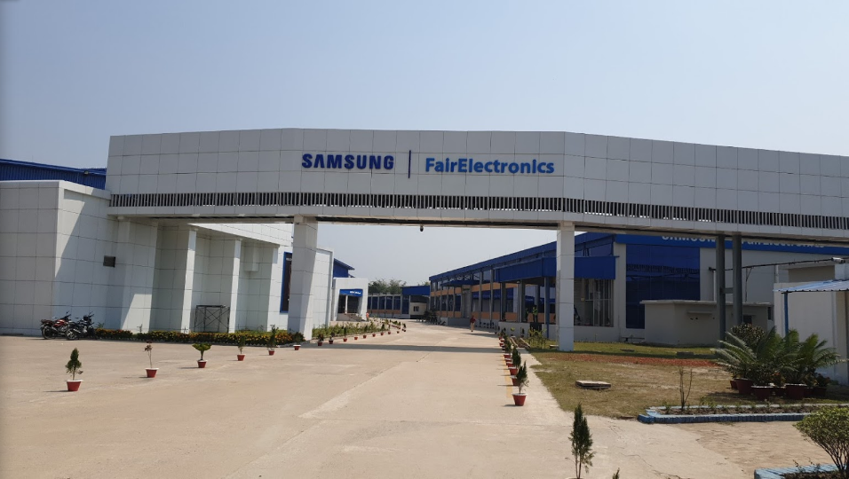 Manufacturing plant of Fair Electronics for Samsung Electronics. This is situated at Shibpur Upazila, Narsingdi District, Bangladesh.